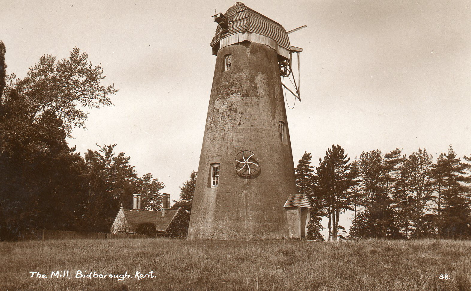 Photo of Bidborough windmill taken in the 1920s (or earlier?)